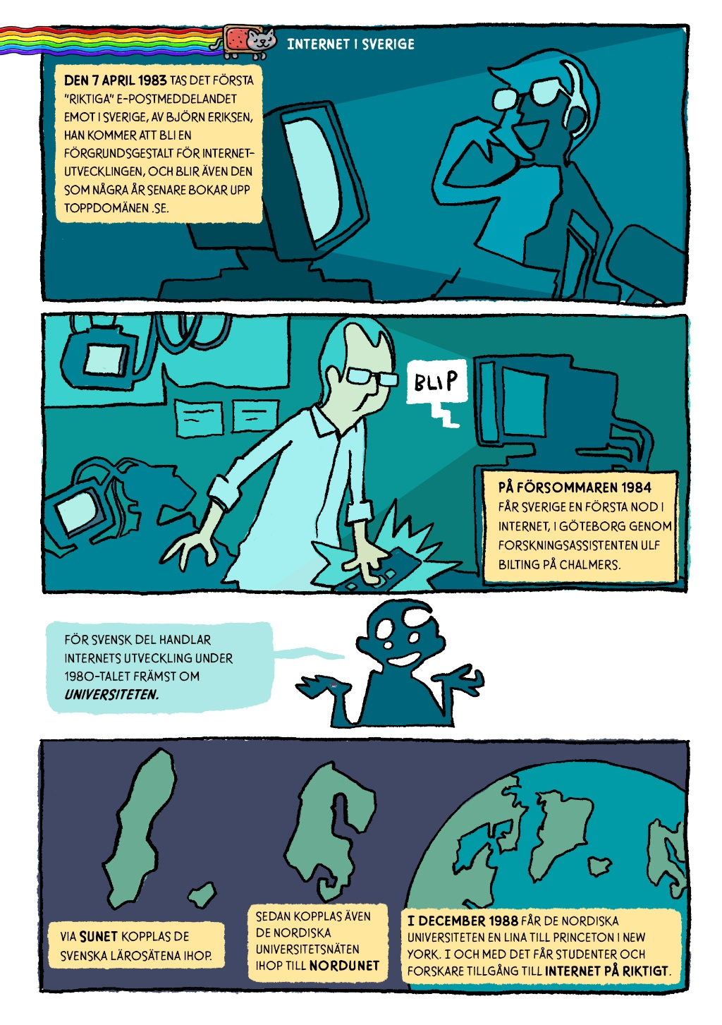 The illustrated history of Internet. A comic created for children and youths illustrated by Jesper Wallerborg for Internetmuseum.